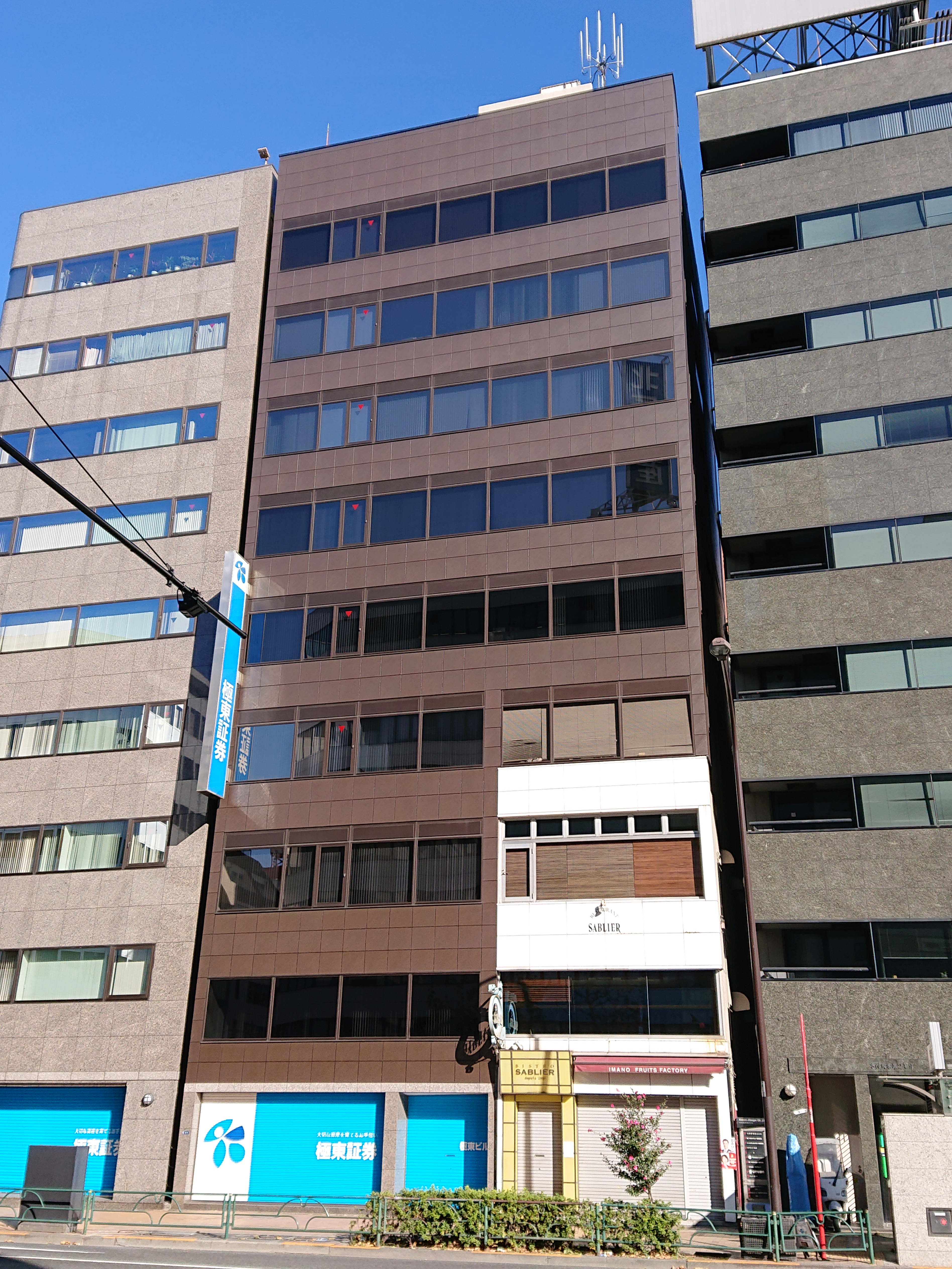 Kyokuto Building (極東ビル), located at 1-4-7 Nihonbashi-Kayabacho, Chuo, Tokyo, Japan